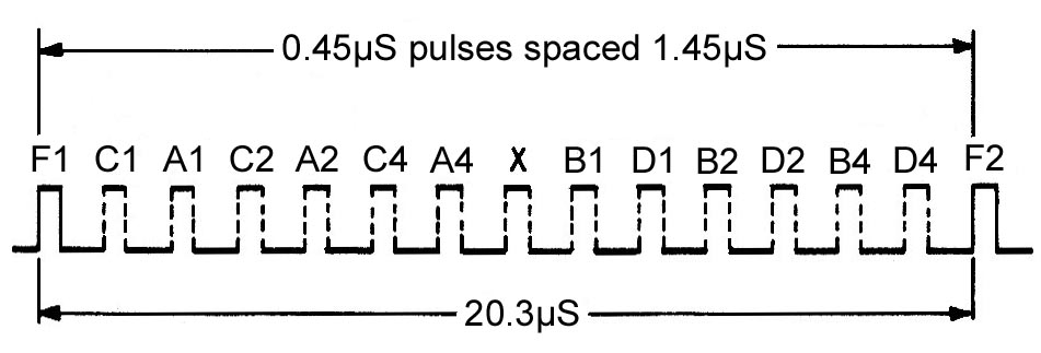 This is a widely used diagram associated with Secondary Surveillance Radar